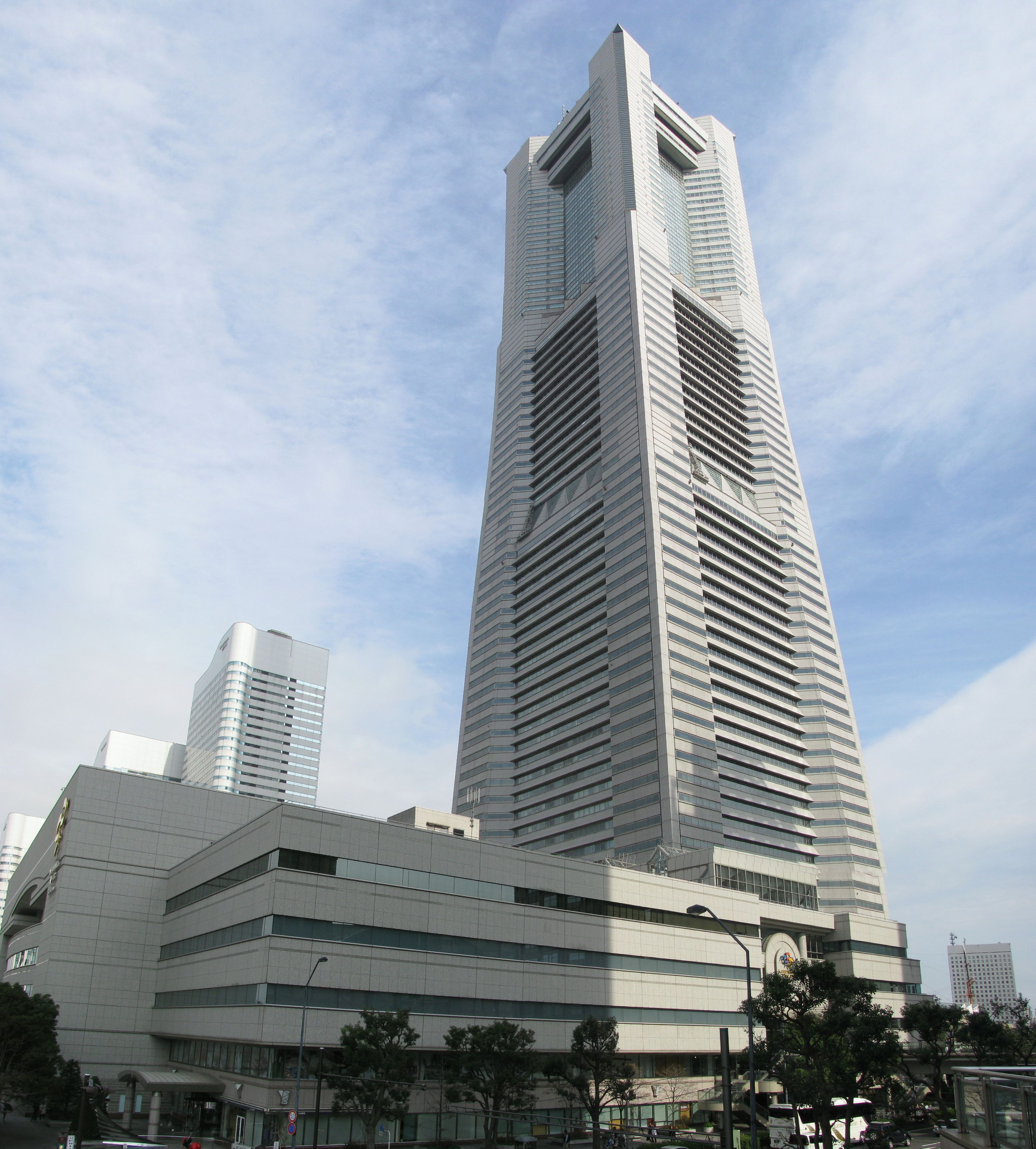 The Yokohama Landmark Tower. This location is Minato Mirai in Nishi-ku, Yokohama, Kanagawa Prefecture, Japan.